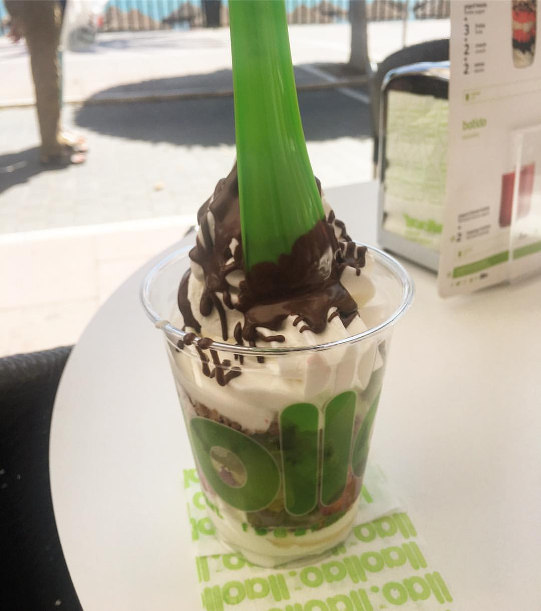 Llaollao frozen yogurt Sanum watching the world go by #mediterranean #traveller #foodporn #frozenyogurt #spain #foodlover #foodie #chilled #llaollaoyogurt @llaollao